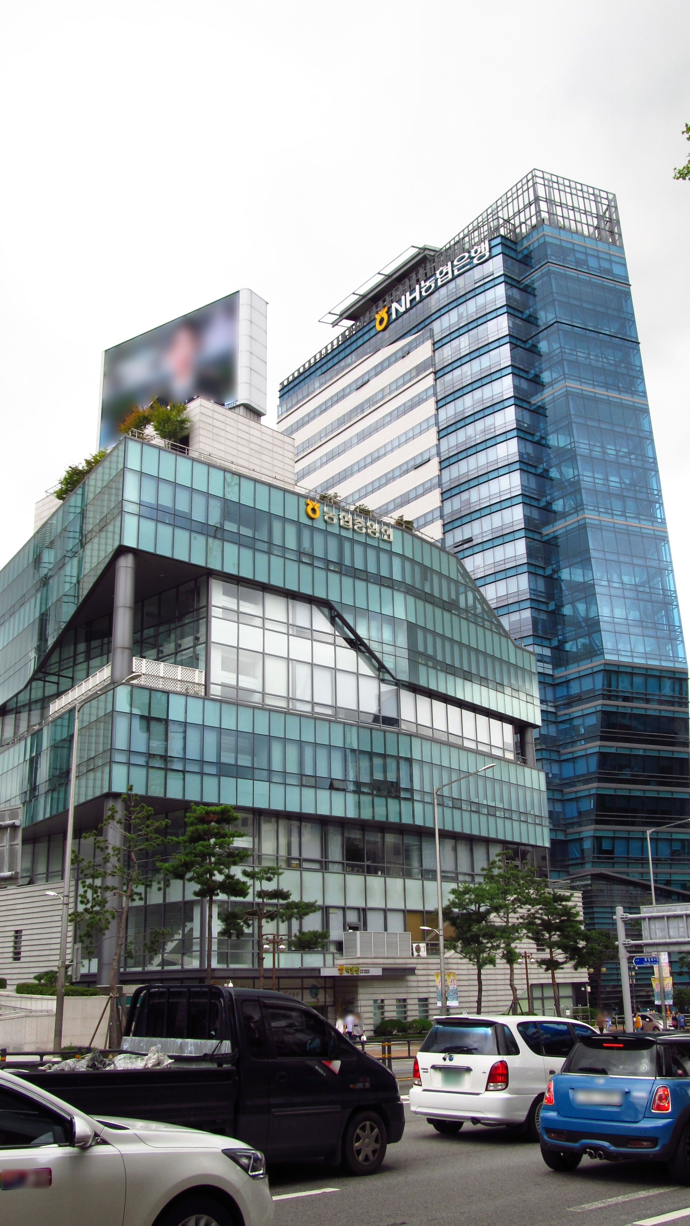 The headquarters of National Agricultural Cooperative Federation(Nong Hyup) and the headquarters of Nonghyup Bank in Jung-gu, Seoul, Republic of Korea